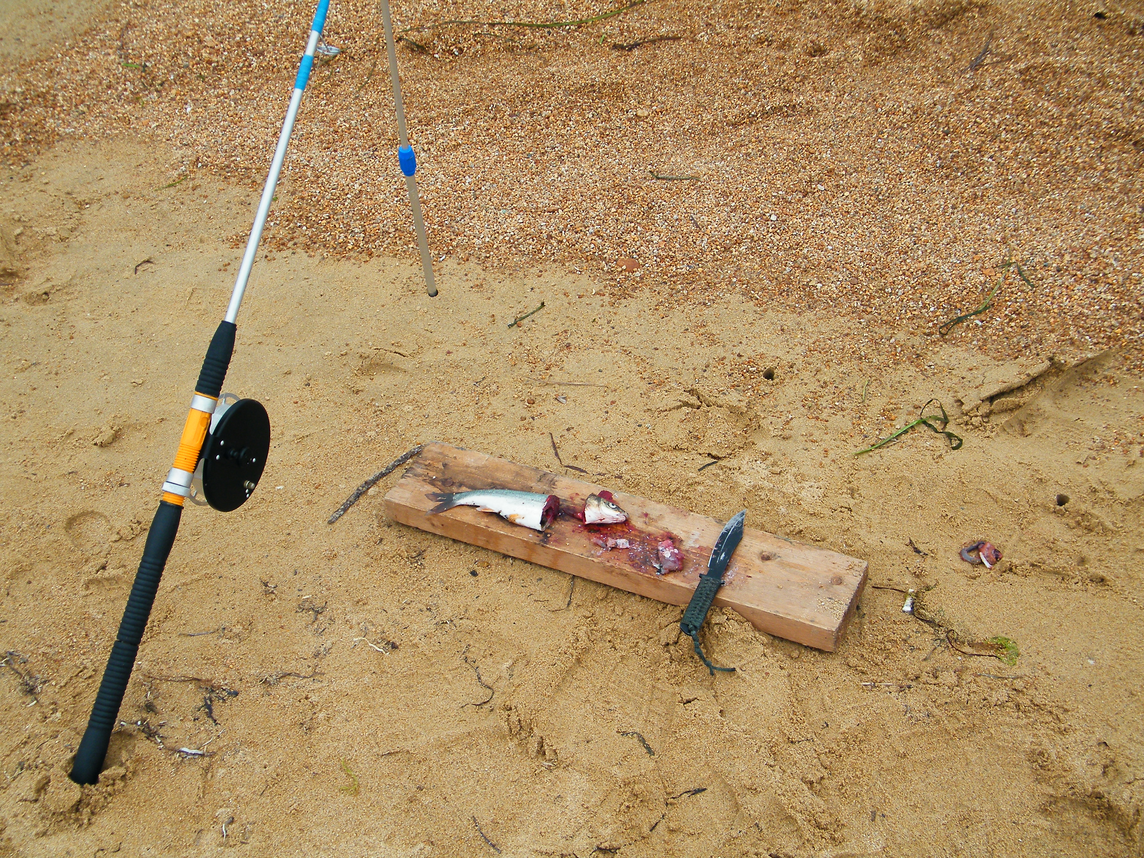 Ловля рыбы на резку